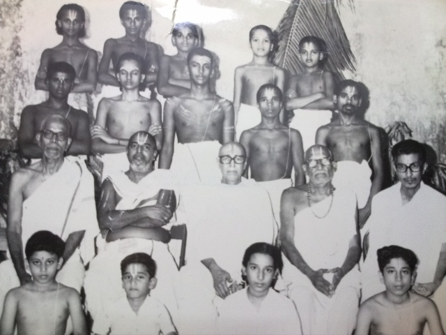 Vaduvur Desikachariar - Memorable photo when he is a teacher in Mannargudi Veda Patasala